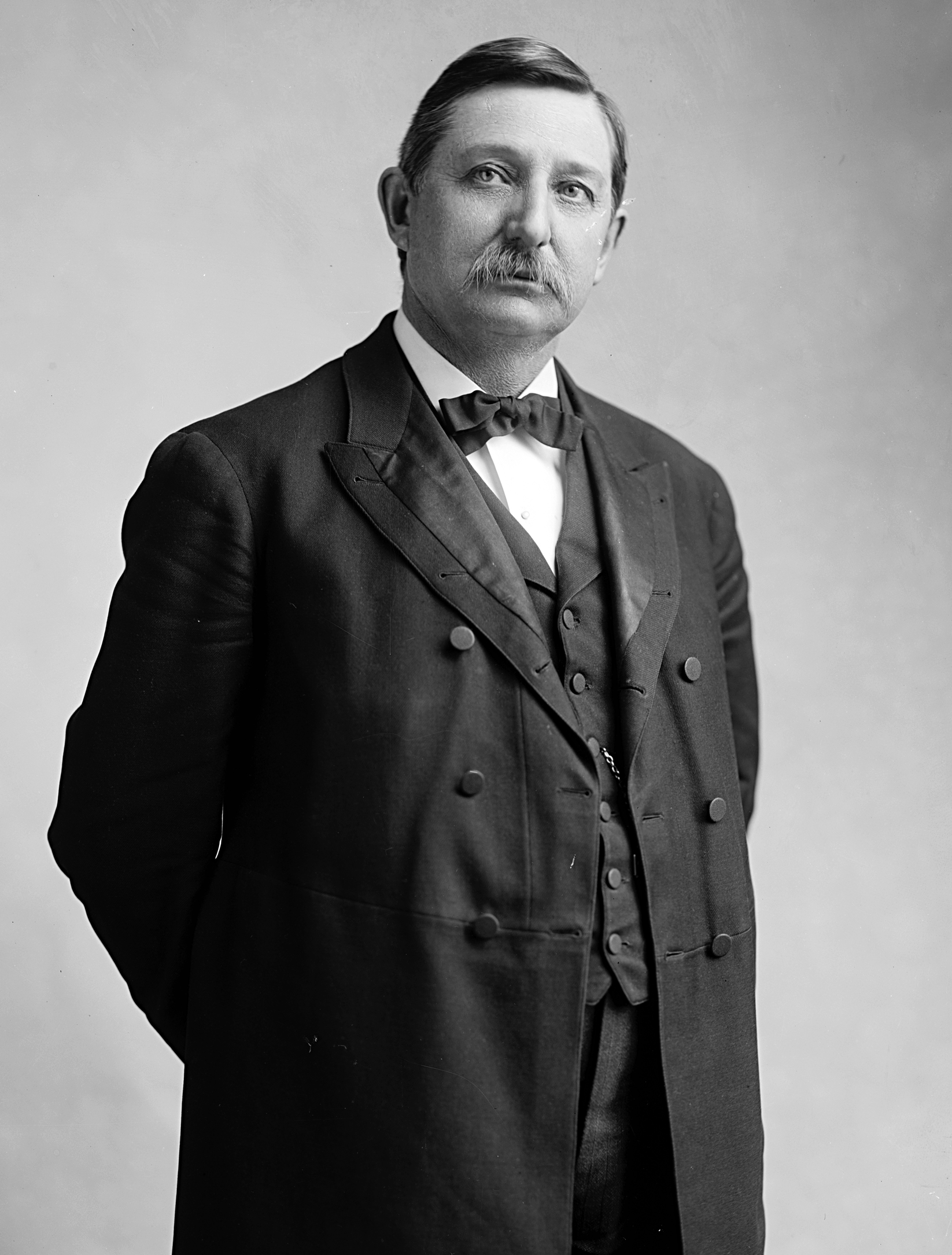 George W. Prince, US Representative from Illinois